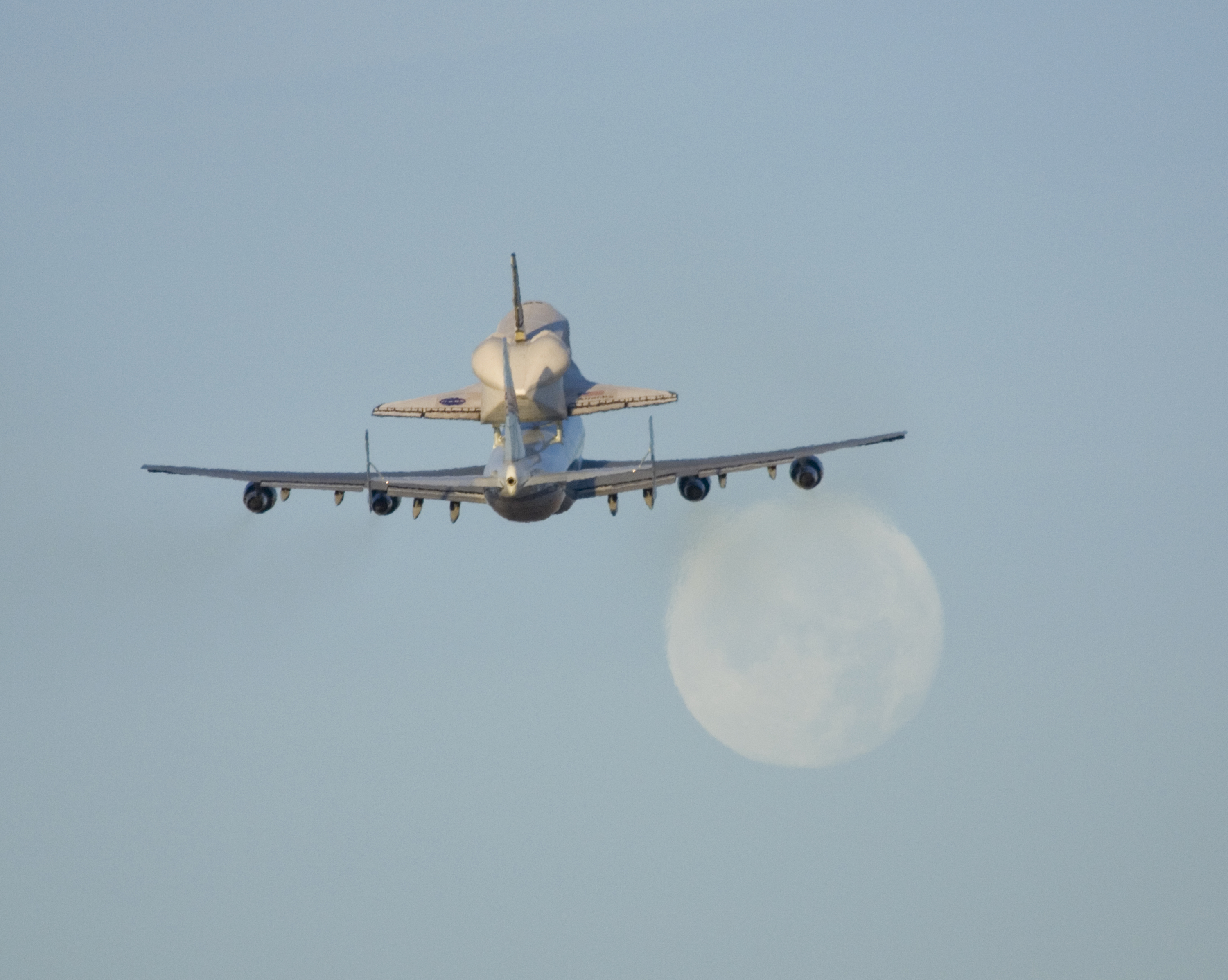 NASA's modified 747 Shuttle Carrier Aircraft with Atlantis on top lifts off to begin its ferry-flight back to Kennedy Space Center in Florida following the STS-117 mission. The enroute plan includes refueling stops and a stop overnight. The anticipated arrival at the Kennedy Space Center will be no earlier than the next day with a possibility of arriving two days later if weather conditions are not favorable.